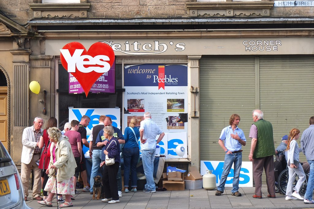 Referendum campaigning, Peebles High Street